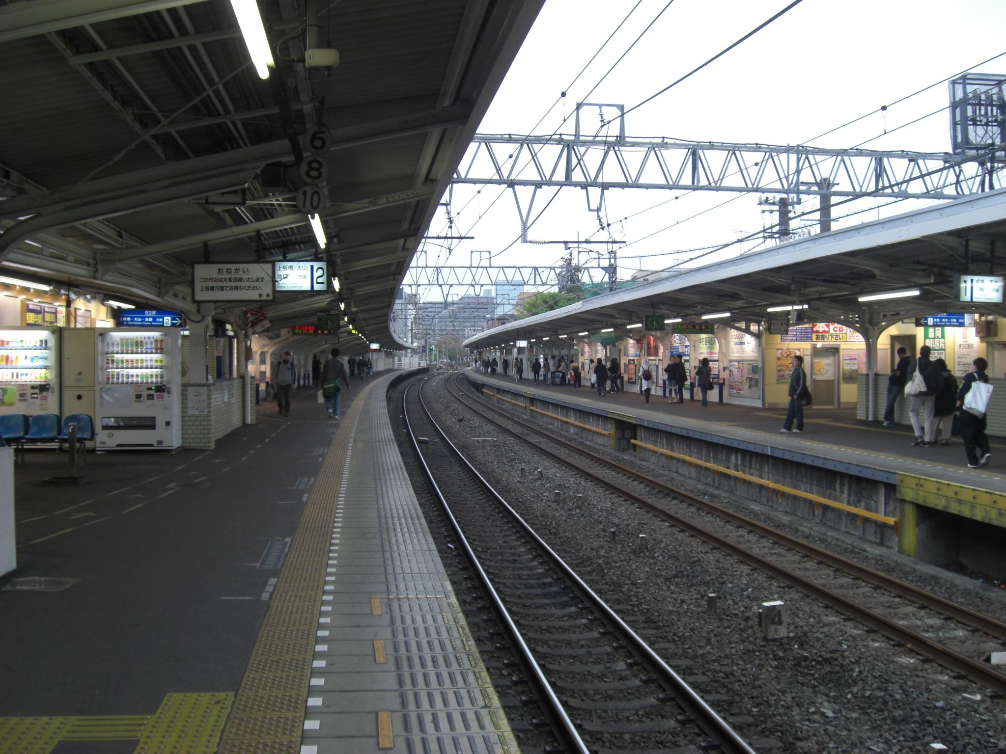 Tobu-Nerima Station on the Tobu Tojo Line